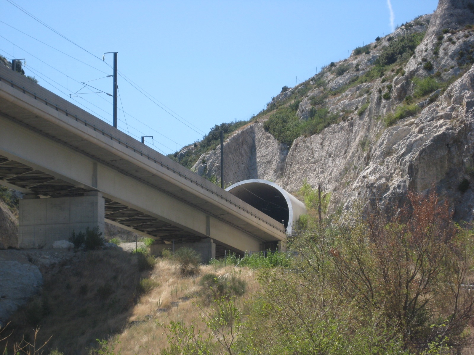 A high-speed rail (TGV) tunnel with an entrance hood.